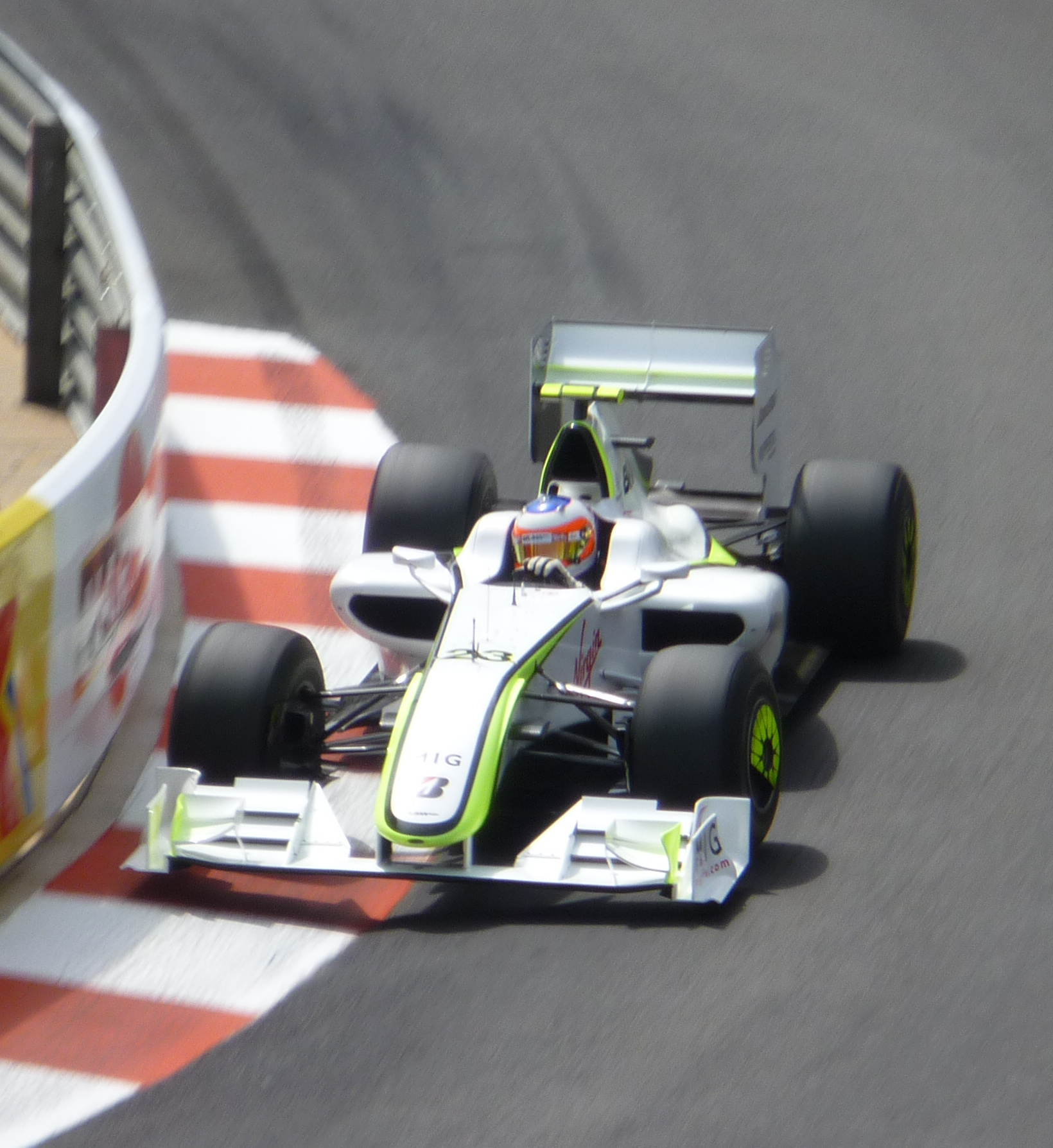 Rubens Barrichello at the 2009 Monaco Grand Prix, Monte Carlo, Monaco.